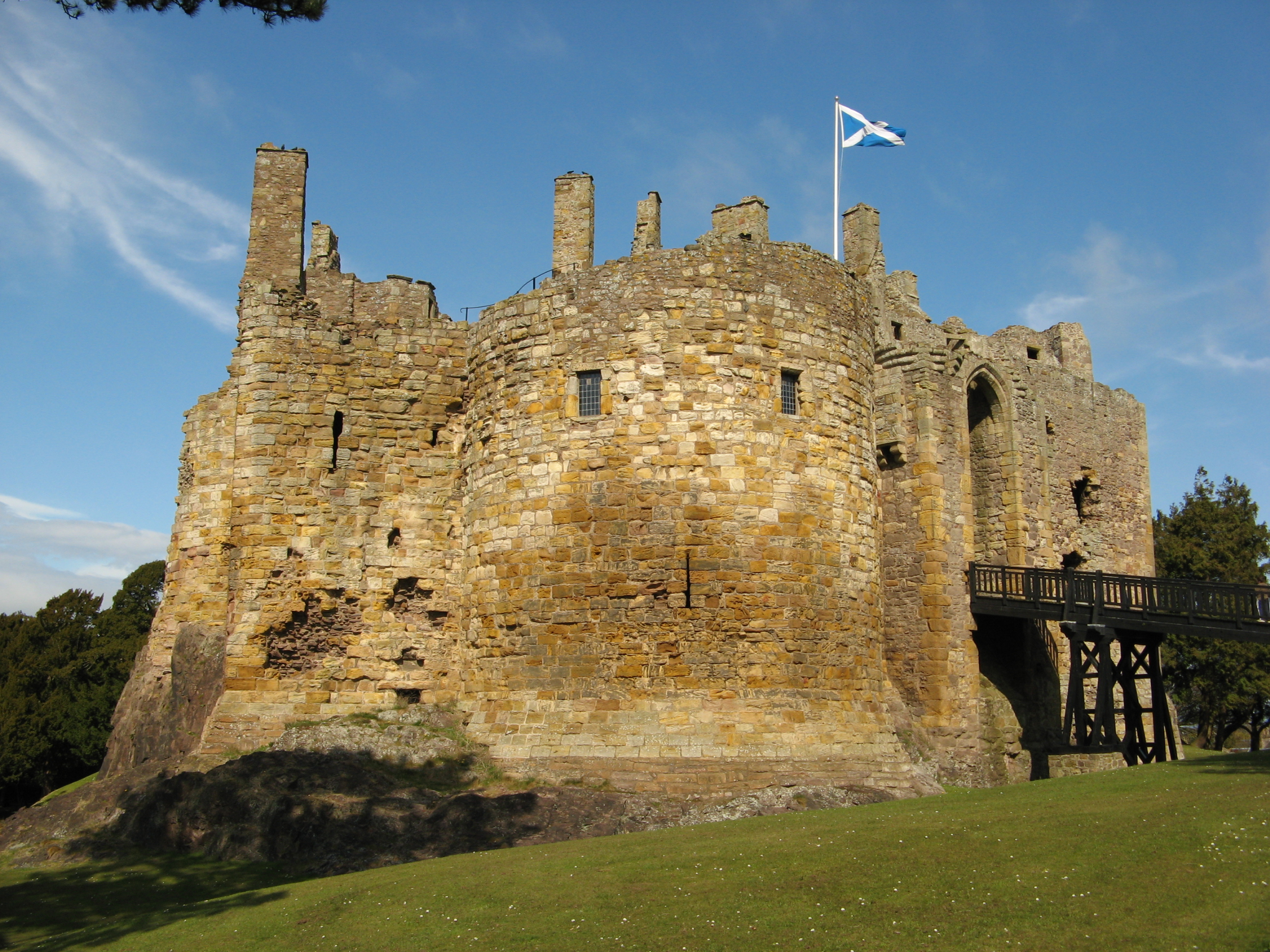 Dirleton Castle, East Lothian, Scotland. South walls of the castle, with the 13th century donjon in the centre.